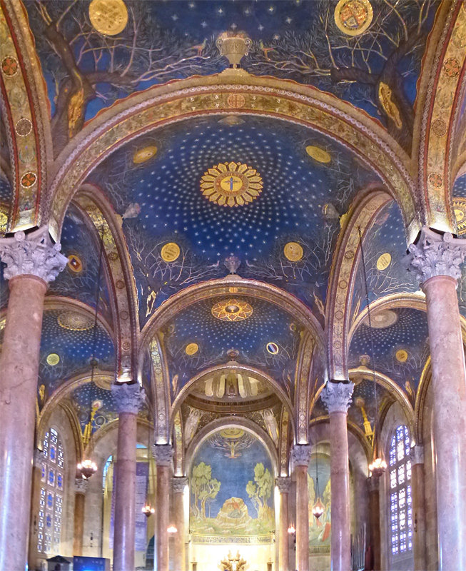 Church of All Nations, Mount of Olives, Jerusalem.